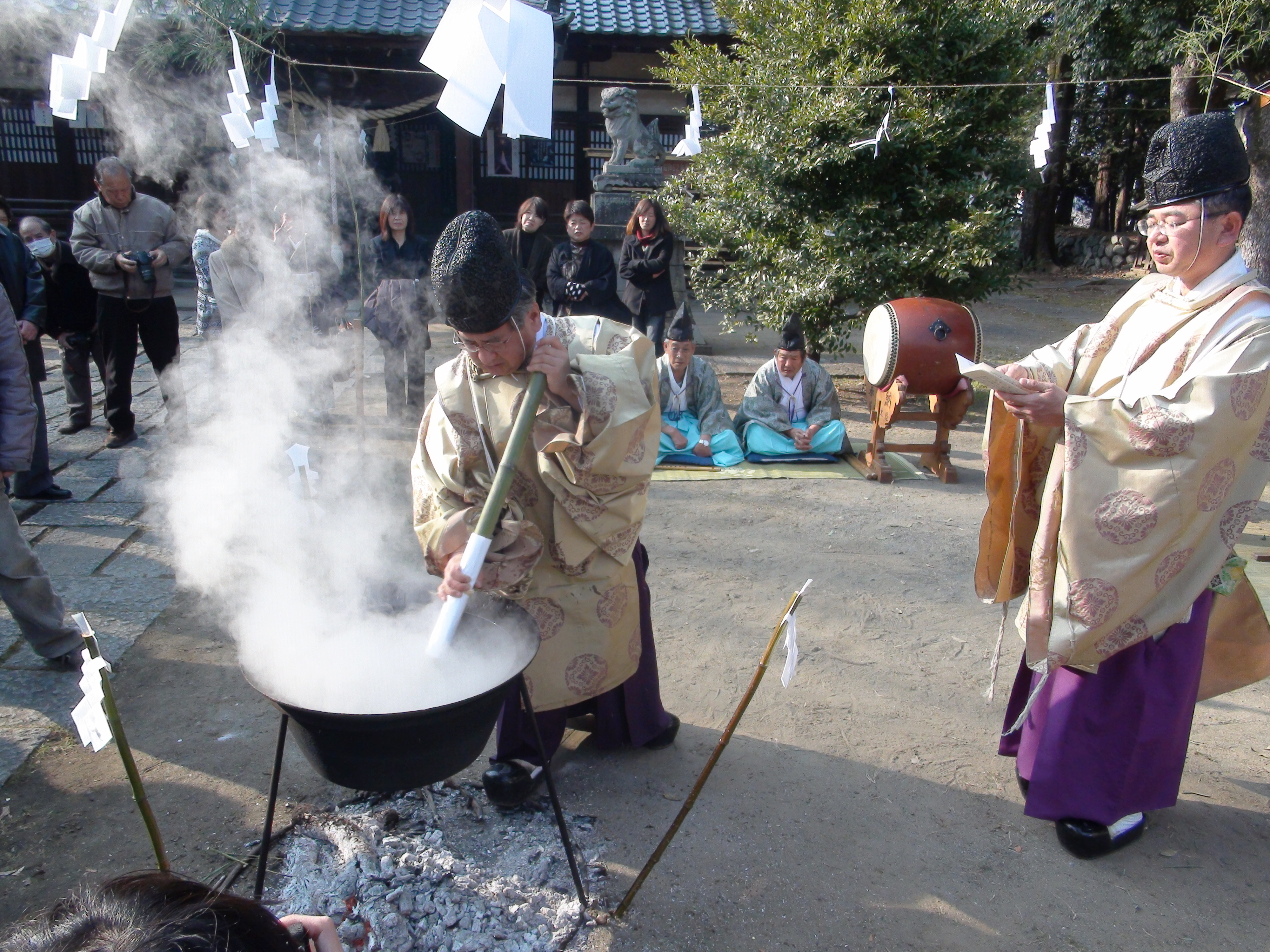 Miwa-shrine Yutateshinji（The ceremony of a traditional Shinto shrine）